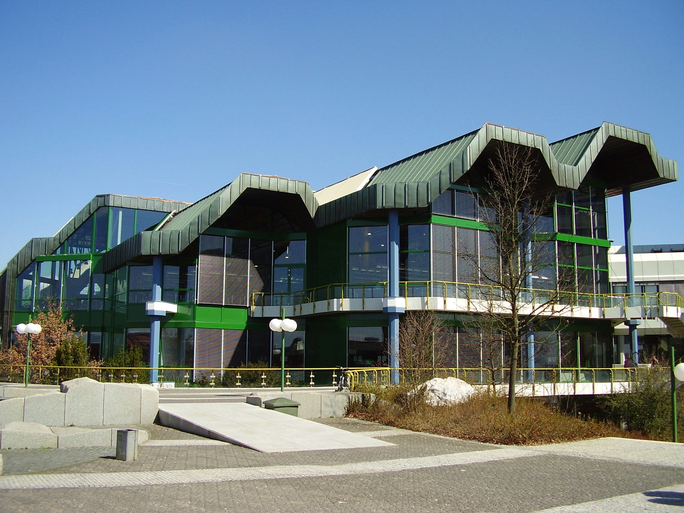 University of Trier, Library. Own photo